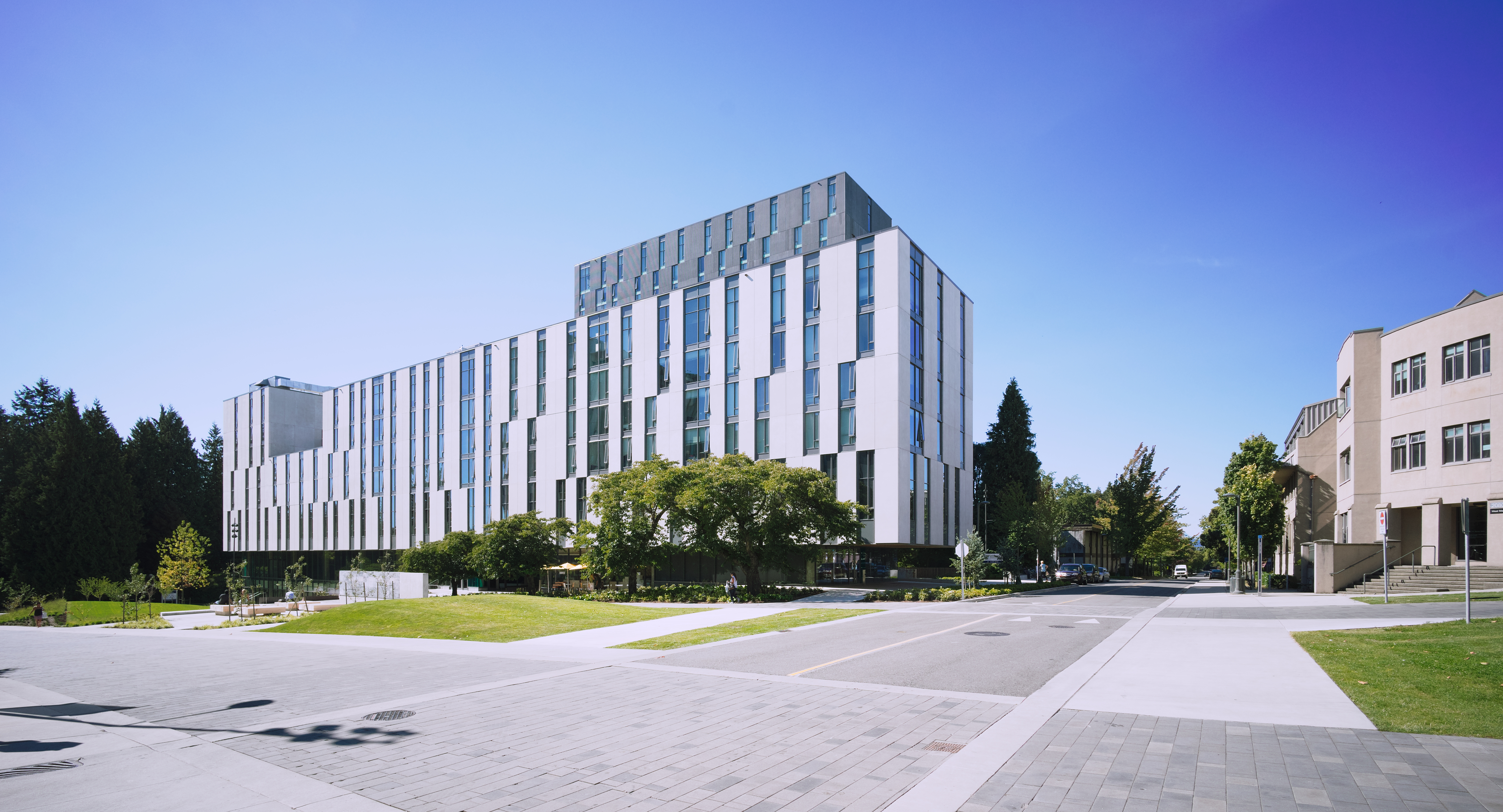 A student residence at the University of British Columbia, constructed in 2016.